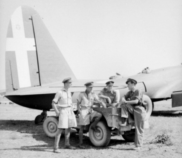 On Grottaglie airfield, Italy, pilots, Flight Lieutenant L. Wynne of Yorks, England, Squadron Leader Brian Eaton of Melbourne, Vic, Flight Lieutenant Harris DFC of Adelaide, SA, talk to an Italian pilot who has just brought his four engined Piaggio P.108 bomber aircraft from Northern Italy.